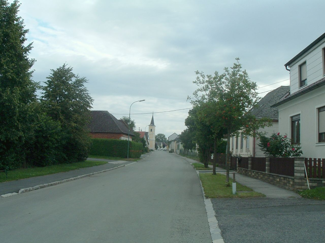 Podler (Polányfalva), Burgenland